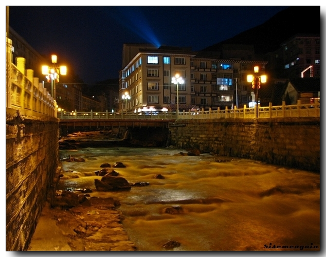 Kangding,a 3000m high city at Sichuan,China. When I got there,I spend two hours to walk around. It's beautiful at night. Thanks for everyone! Use Canon IS S2